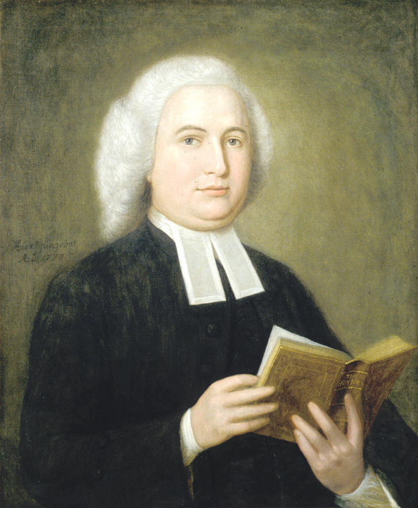 A portrait of James Manning, Brown's first president, holding the office from 1764-1791. Manning was a Baptist Minister and sent to Rhode Island to found a college. In 1769 he presided over the school's first commencement with seven graduates. This portrait was painted in 1770 by Cosmo Alexander